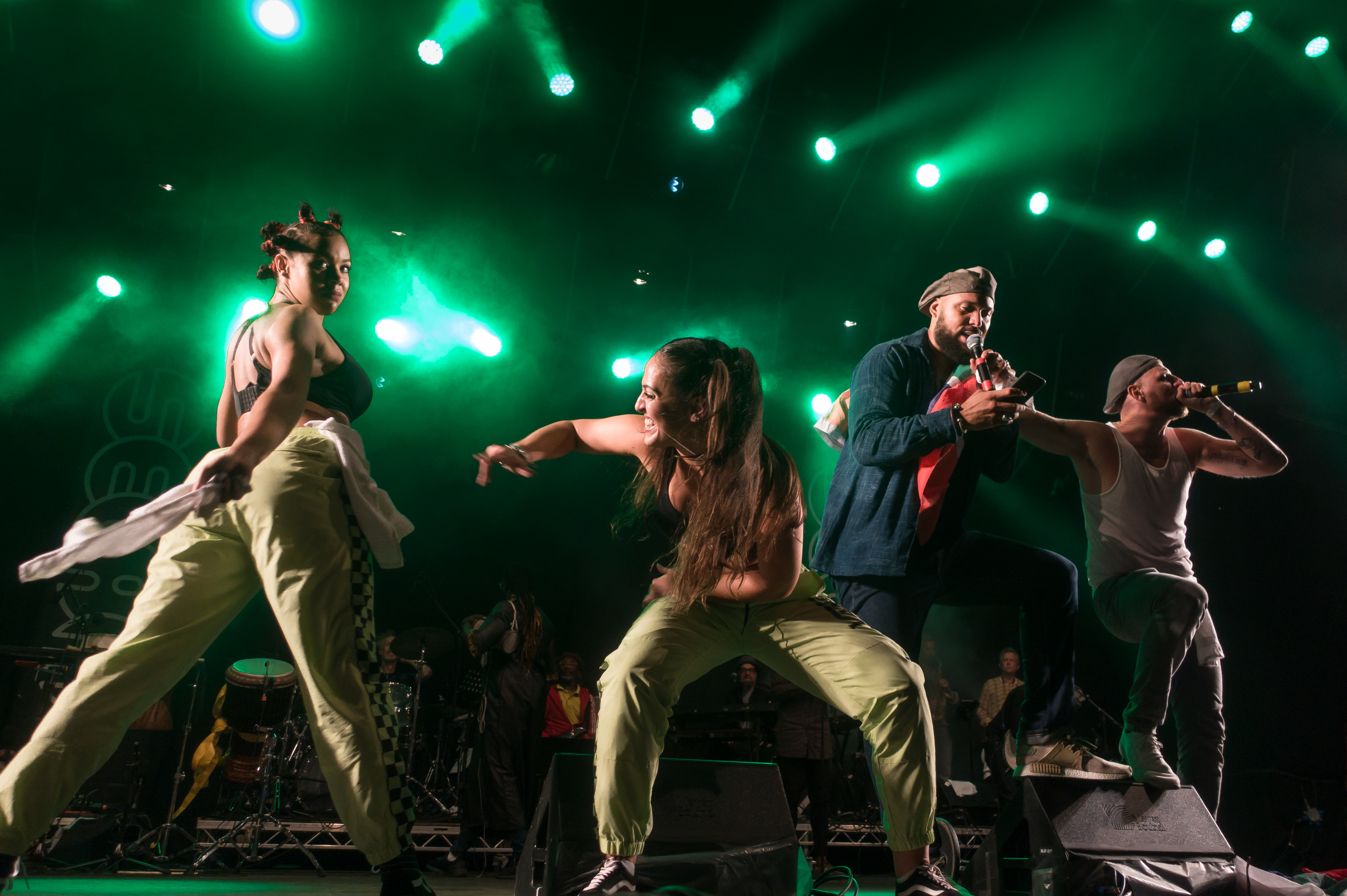 Kaliffa and Jens Malmlöf with dancers perform at Gustav Adolf's square at Stockholm Cultural Festival 2019.